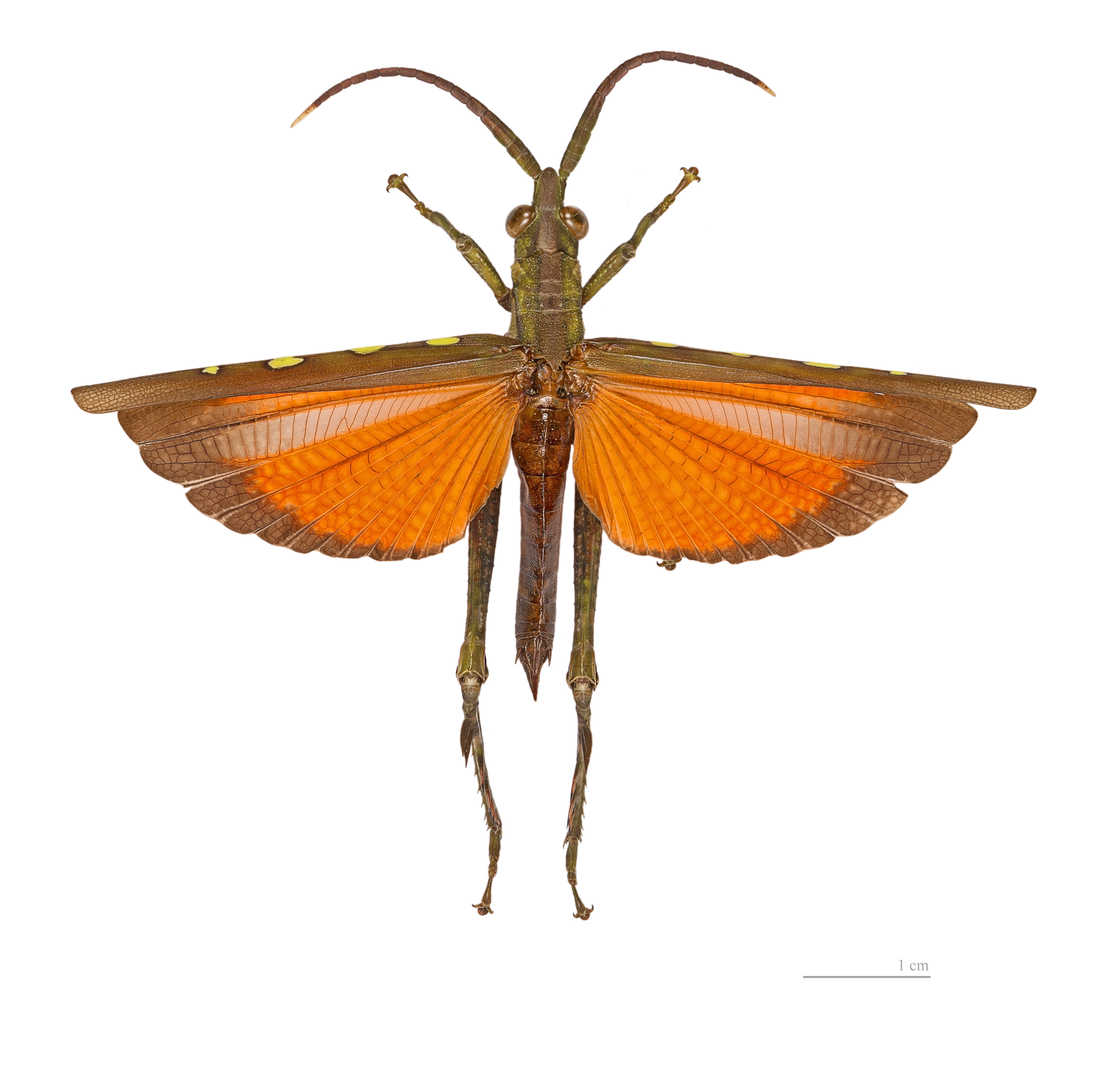 ♂ - Dorsal side Locality : Cacao, Crique Baguot, French Guiana.